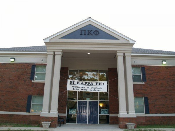 A picture of the Gamma Phi (University of South Alabama) chapter house of the Pi Kappa Phi fraternity.